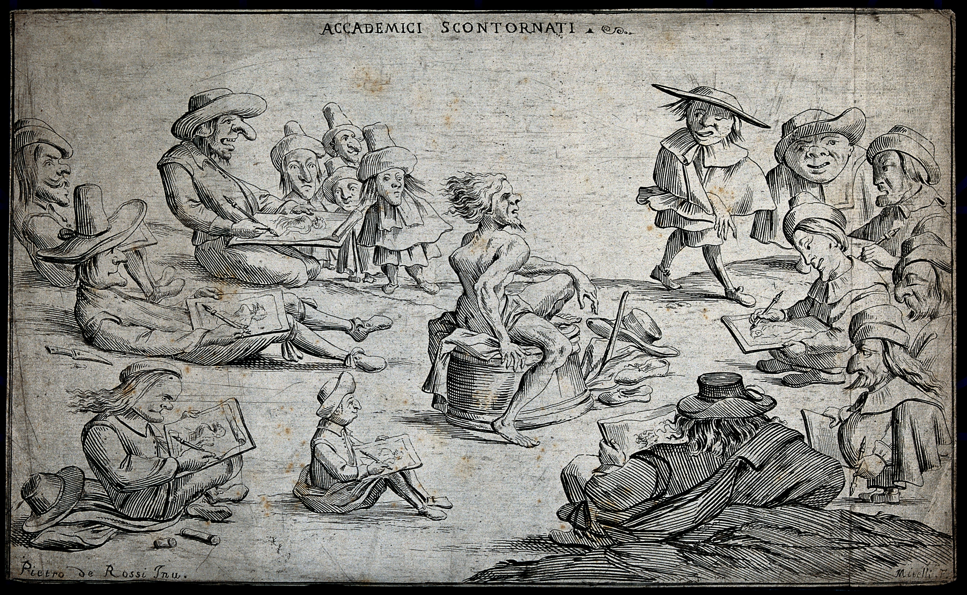 A nude male hunchback being drawn by dwarfs and other caricatured figures. Etching by Mitelli after P. De Rossi. Iconographic Collections Keywords: Pietro. De Rossi; Giuseppe Maria Mitelli